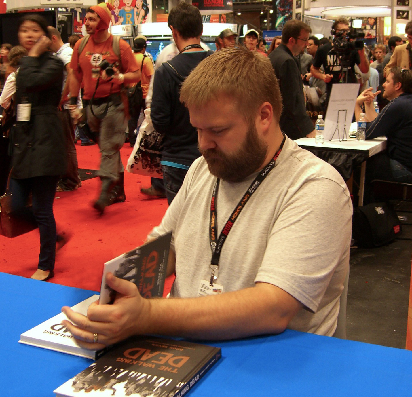 Comic book creator Robert Kirkman signing books and memorabilia for fans at the 2011 New York Comic Con, October 14, 2011. This photo was created by Luigi Novi. It is not in the public domain, and use of this file outside of the licensing terms is a copyright violation.